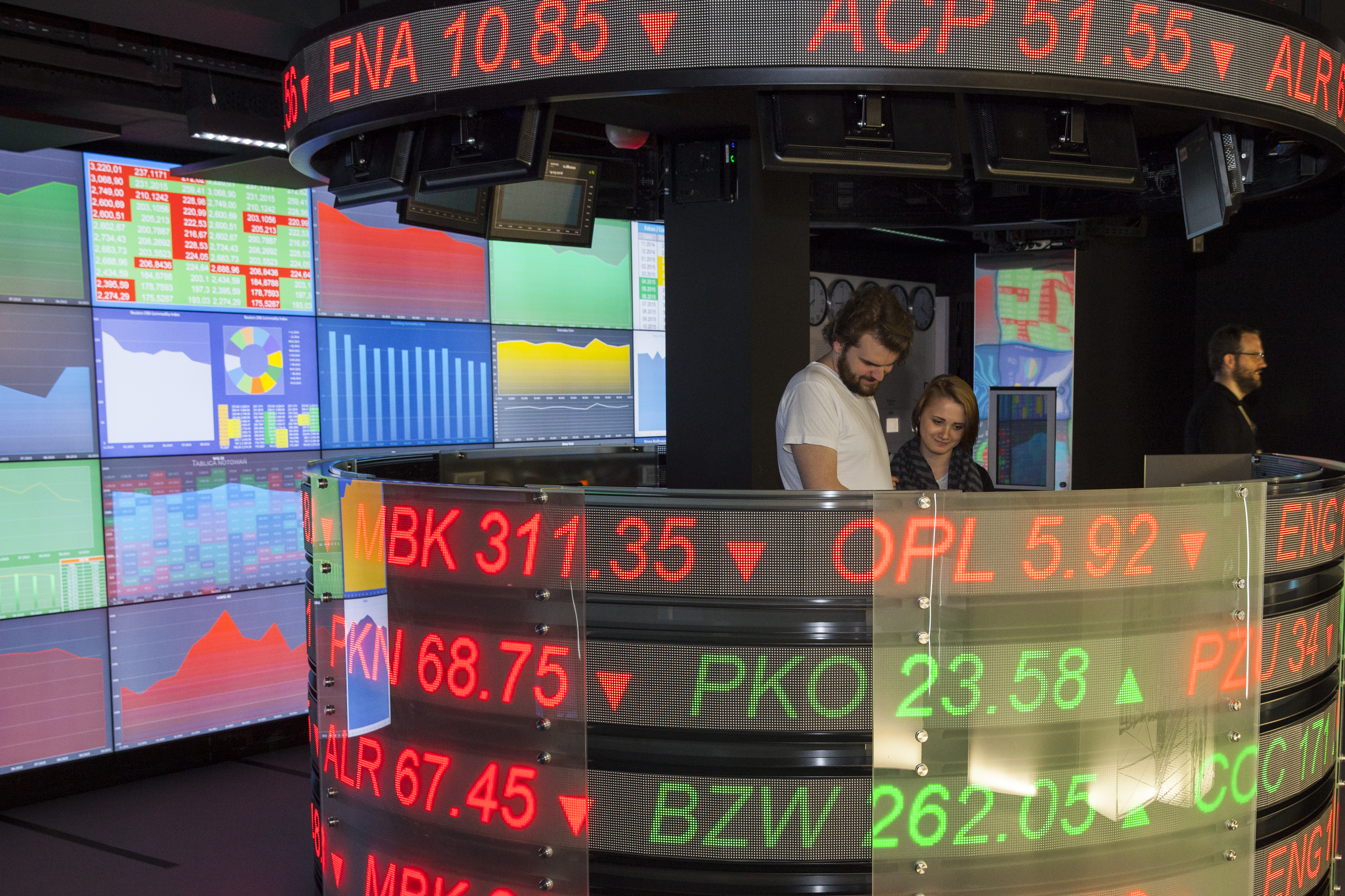 Exchange and Financial markets in Centrum Pieniądza NBP im. Sławomira S. Skrzypka, Warsaw, Poland